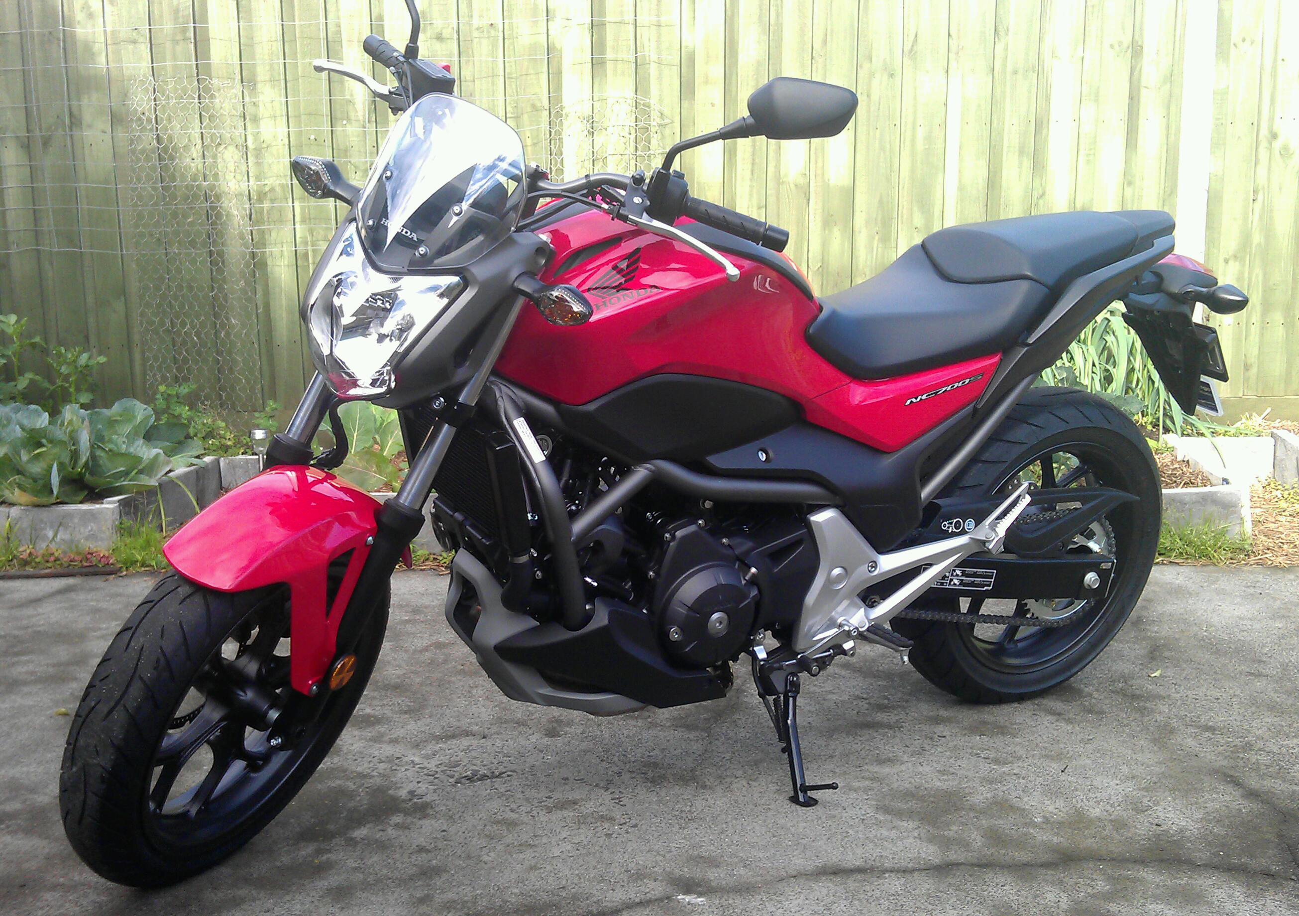 2012 Honda NC700SA bought in Australia